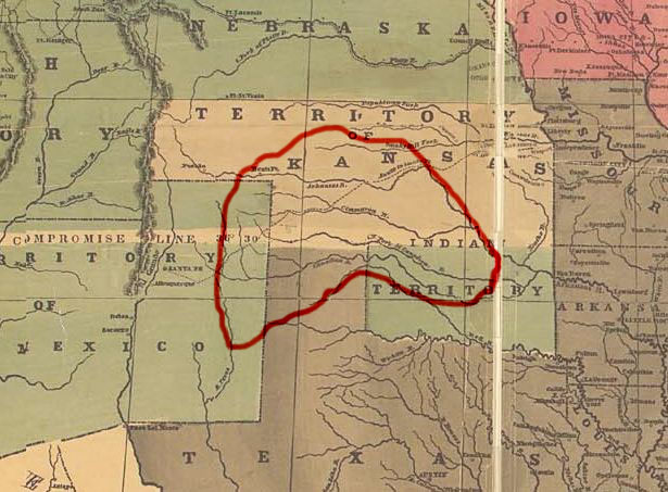 Map showing approximately the area occupied by the Kiowa tribe prior to 1850. It's made using "Reynolds's Political Map of the United States" (1856) from Library of Congress collection (public domain).